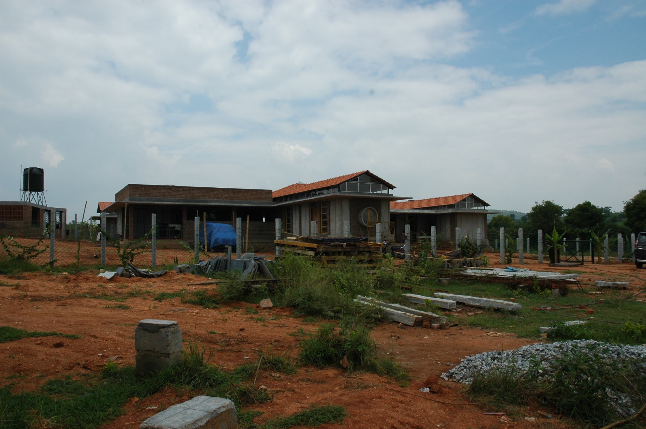 The Suraksha center in India.